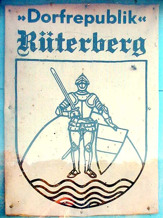 Coat of arms of Rüterberg, a borough of Dömitz in Mecklenburg-Vorpommern, Germany; Black/white-version